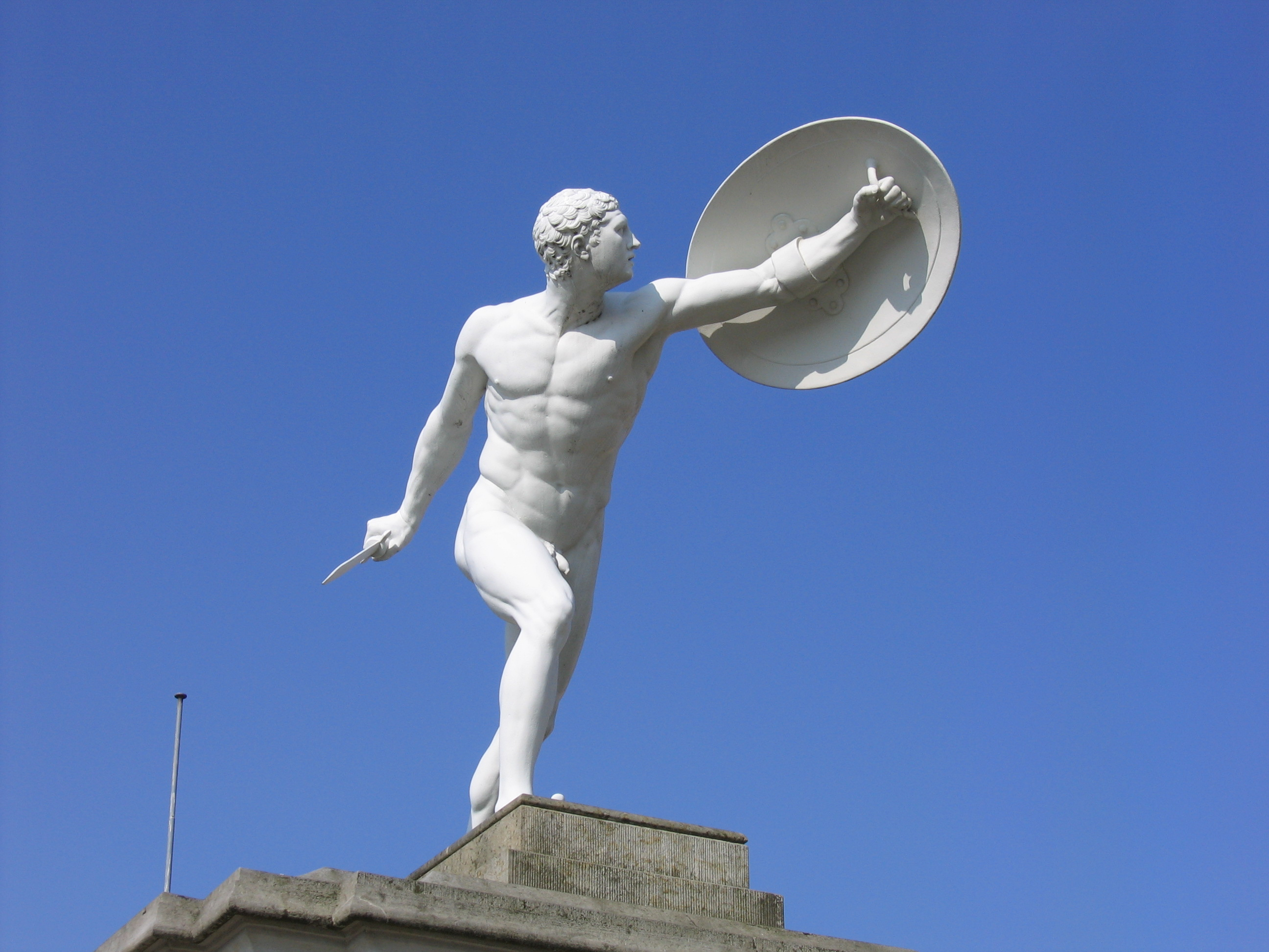 Charlottenburg Palace